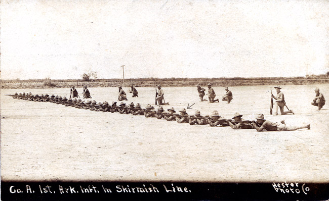 Company A, First Arkansas Infantry, on the skirmish line near Deming, New Mexico, during the 1916 border conflict with Pancho Villa.